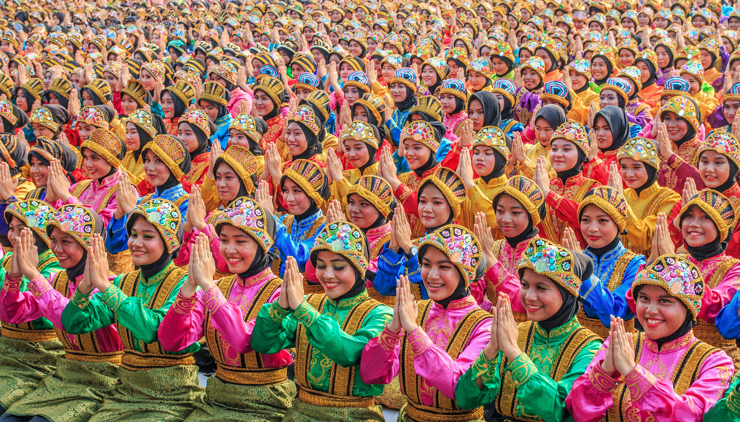 Ratoh Jaroe Dance is one of the most famous traditional dance from Aceh, Indonesia, the unique point of this dance is the harmonious movement of each dancer . This dance is used to praise Allah